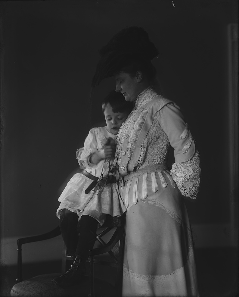 Title Mrs. Roosevelt, Quentin Summary Photograph shows portrait of President Theodore Roosevelt's second wife, Edith Kermit Carow Roosevelt, standing next to their son, Quentin. Contributor Names Johnston, Frances Benjamin, 1864-1952, photographer Created / Published [1902] Subject Headings - Roosevelt, Edith Kermit Carow,--1861-1948--Family - Roosevelt, Theodore,--1858-1919--Family - Roosevelt, Quentin,--1897-1918--Family Format Headings Glass negatives--1900-1910. Group portraits--1900-1910. Portrait photographs--1900-1910. Notes - Title from negative sleeve. - Date from related photograph: LC-USZ62-87403. - On negative: 100030. - Forms part of: Frances Benjamin Johnston collection (Library of Congress). Medium 1 negative : glass. Call Number/Physical Location LC-J698- 100030 [P&P]